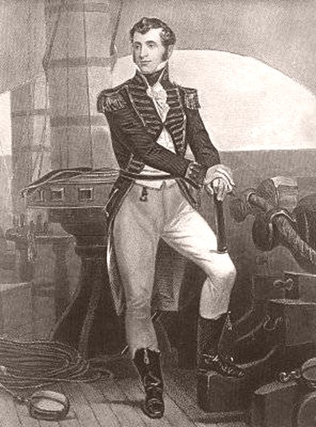 Engraving of Stephen Decatur. Creator(s): Alonzo Chappel, 1828-1887, painter